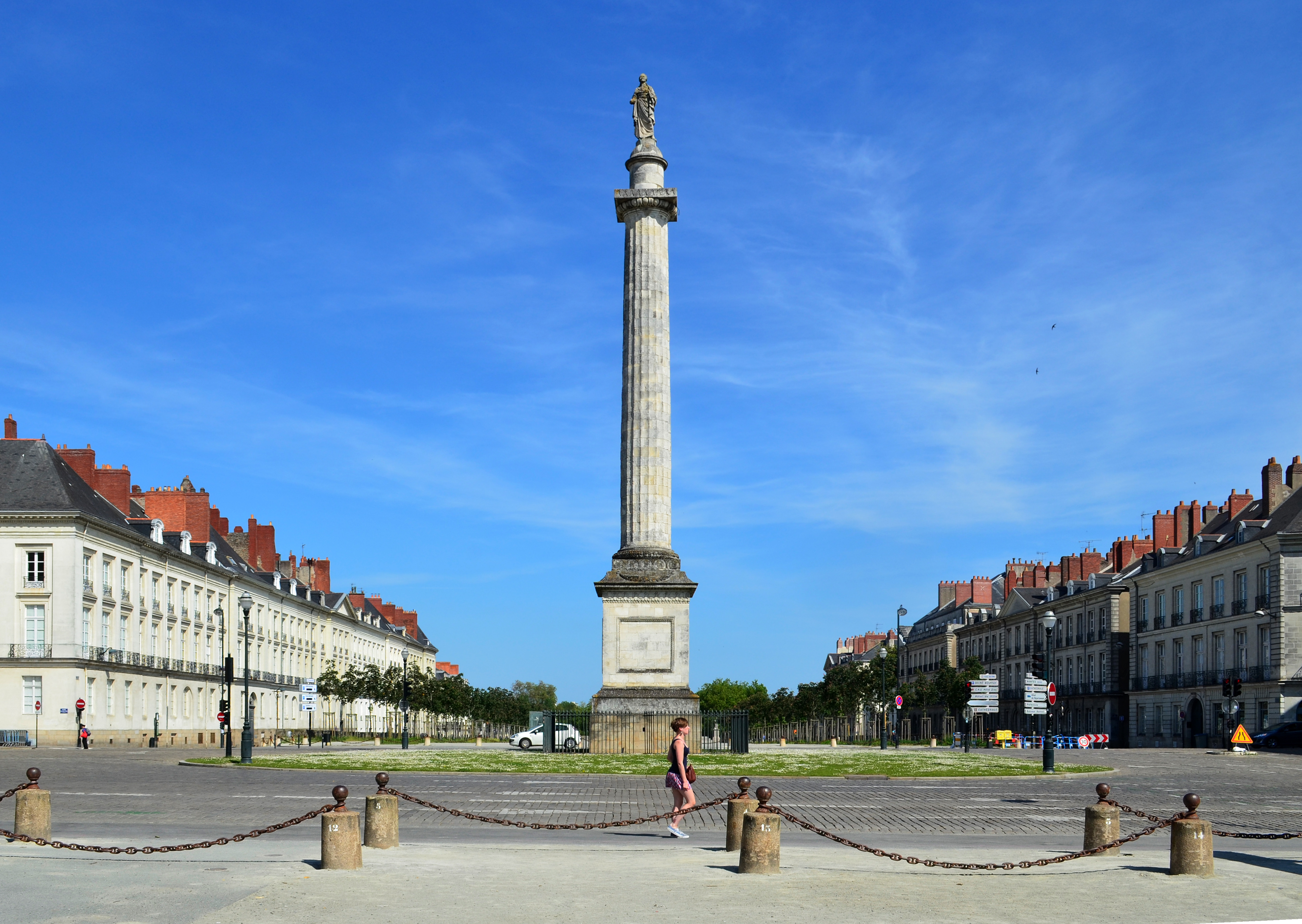 Louis XVI column (statue by Johann Dominik Mahlknecht) - Nantes, France